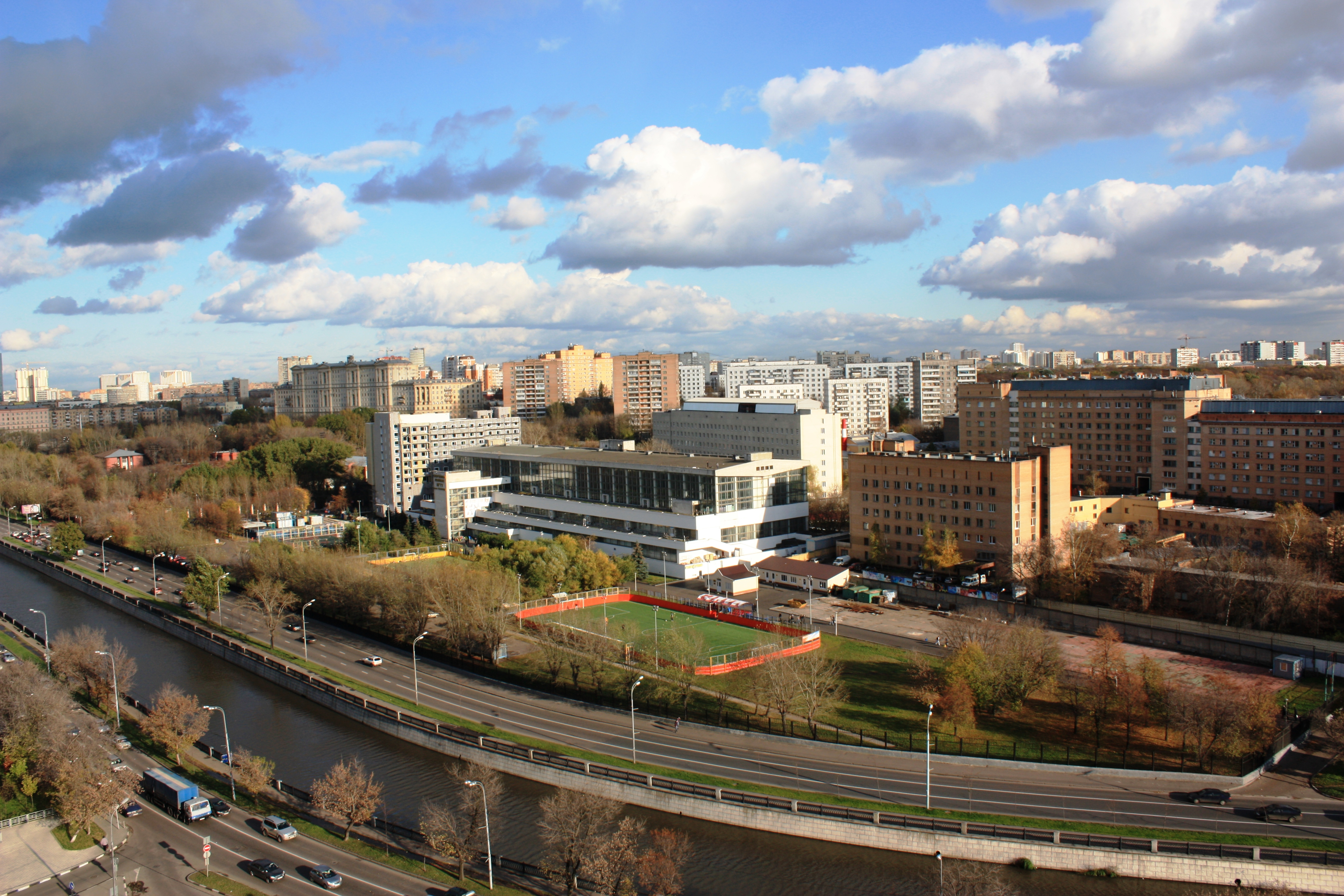 Sports complex MSTU Bauman